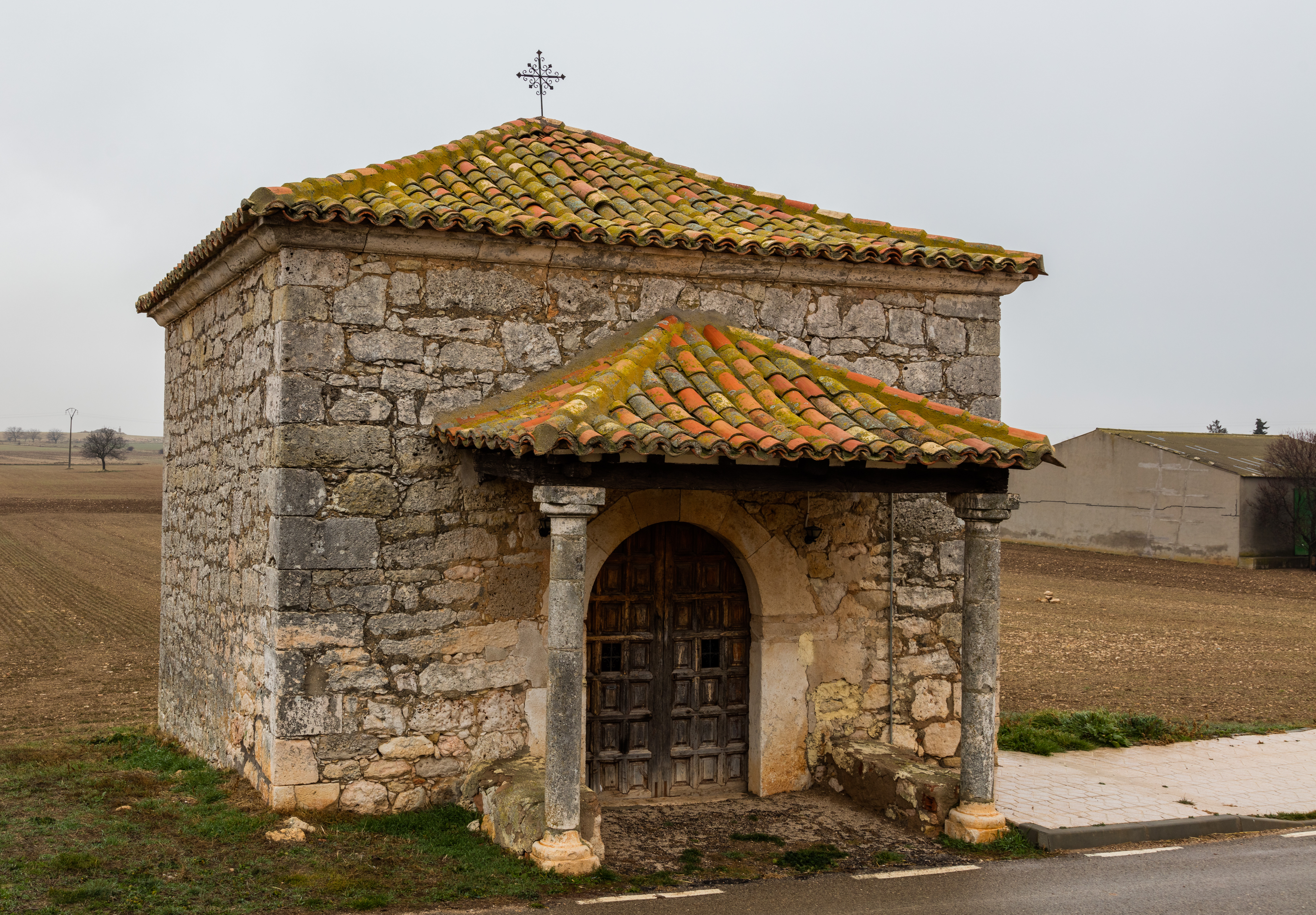 Hermitage of the Loneliness, Atanzón, Guadalajara, Spain